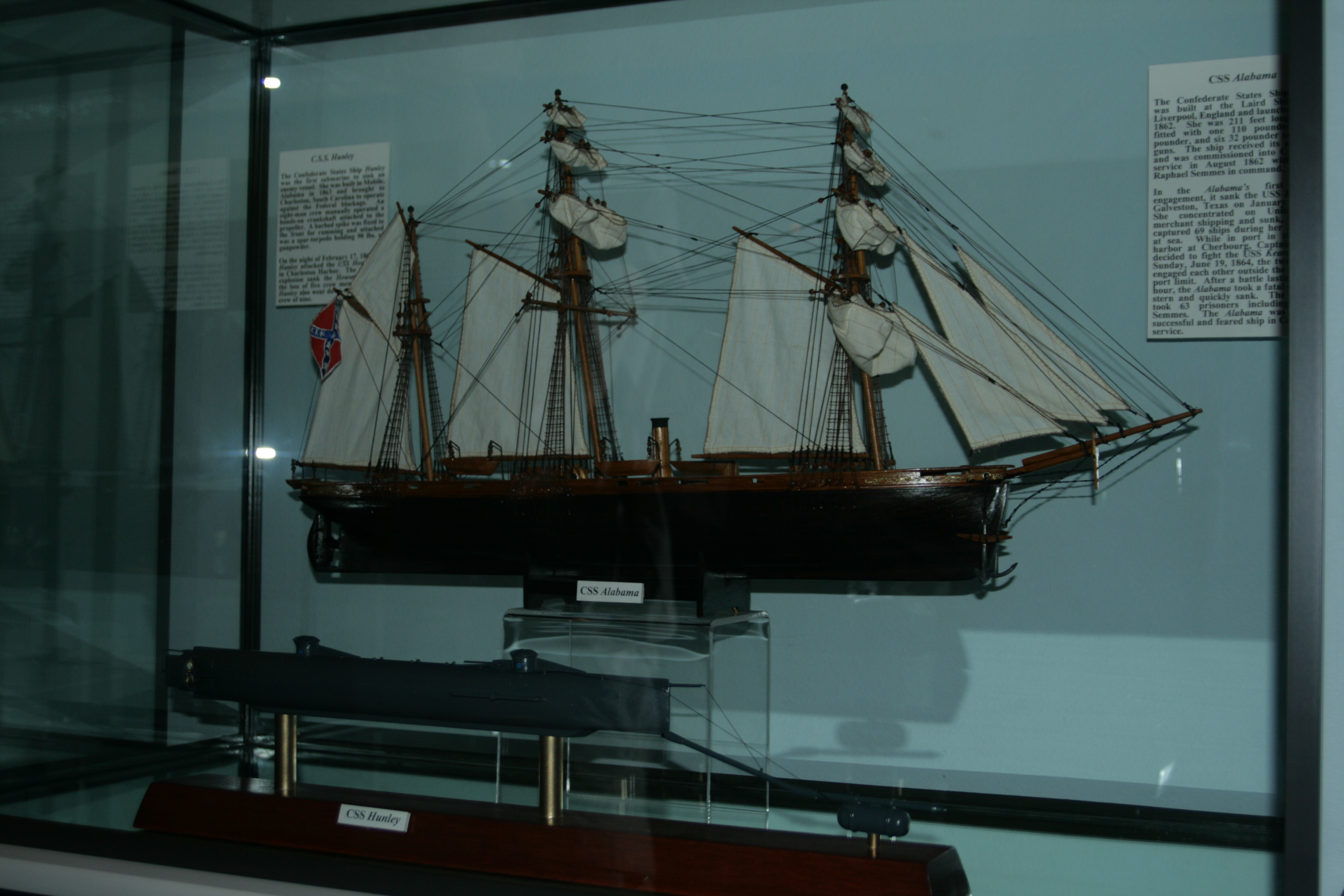 Texas Civil War Museum. CSS Alabama